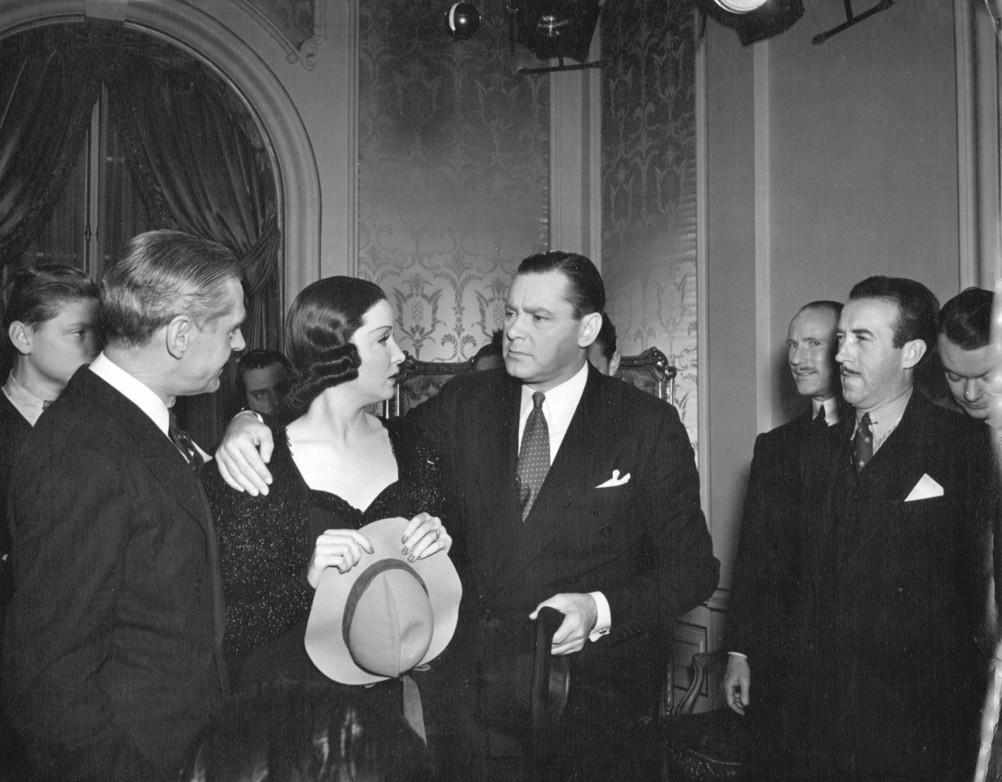 Photo from the 1938 film Mad About Music. Pictured are Herbert Marshall and Gail Patrick. The story is that Patrick, a film star, had concealed the fact that she was married and had a daughter. Patrick, now widowed, sent her daughter (Deanna Durbin in the film) to an isolated Swiss girls' boarding school. The girl doesn't have contact with her mother, and becomes increasingly curious about her father, who died when she was still a baby. The girl develops an imaginary father who writes her letters, but is never seen at the school. After being teased at school that her father never existed, she sets out to find a "father" at the local train station. There she picks out Richard Todd (Herbert Marshall), who is an English composer in Switzerland for a holiday. Todd is amused by this and decides to pretend that he is the father of the girl. When the girl lears that her mother will be in Paris, she manages to take a train with Todd picking up the train fare tab, as he was also there on business. When Todd learns who the girl's mother is, he insists that it's time for mother and daughter to be reunited. Patrick's character then has a press conference where she admits to concealing her daughter's existence. This photo is from the scene after the press conference, where Patrick and Todd's characters try to answer reporters' questions.